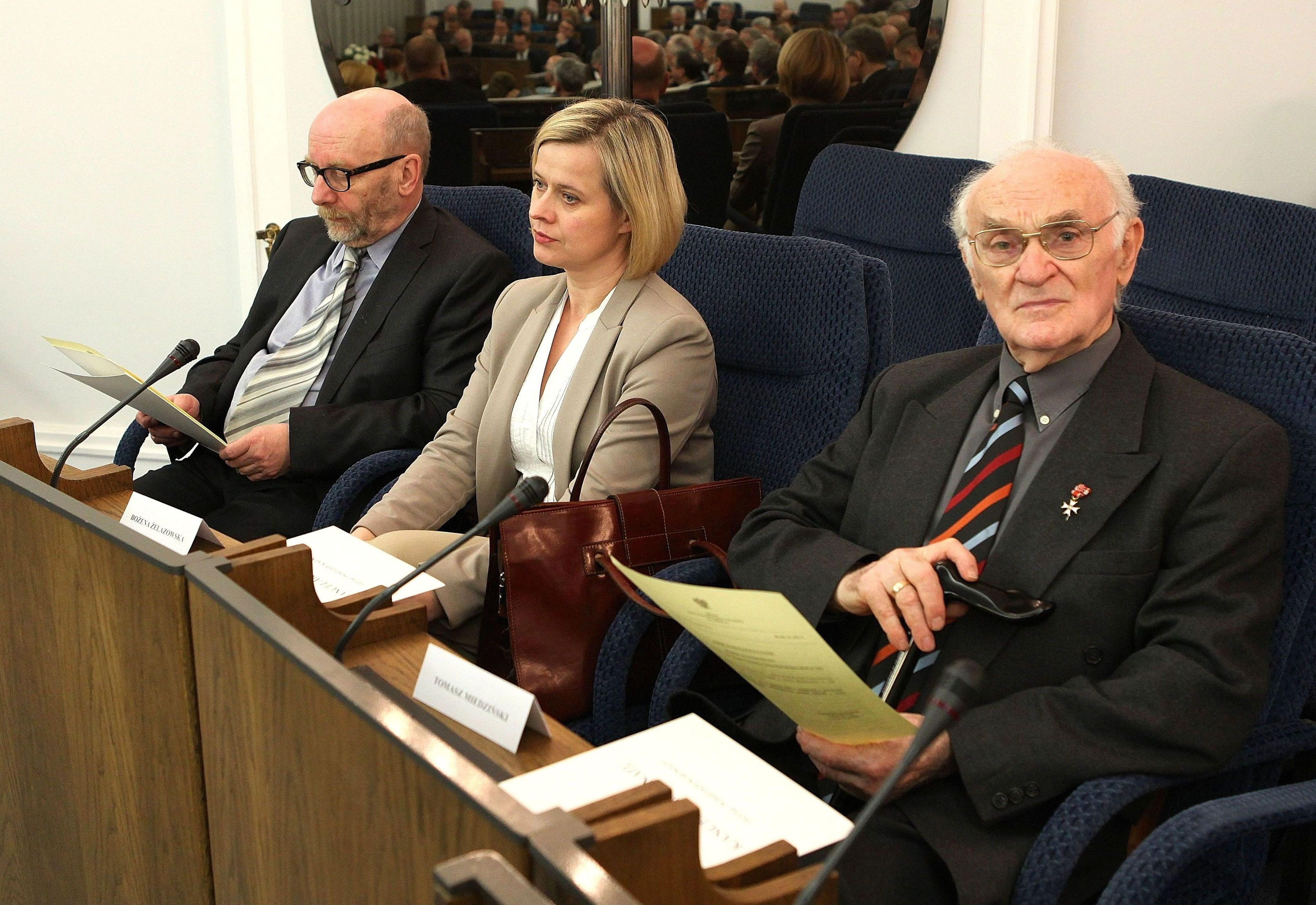 Director of the Jewish Historical Institute Paweł Śpiewak, Deputy Director of the Office for War Veterans and Victims of Oppression Bożena Żelazowska and the President of the Society of Jewish War Veterans Tomasz Miedziński. 31st sitting of the Polish Senate